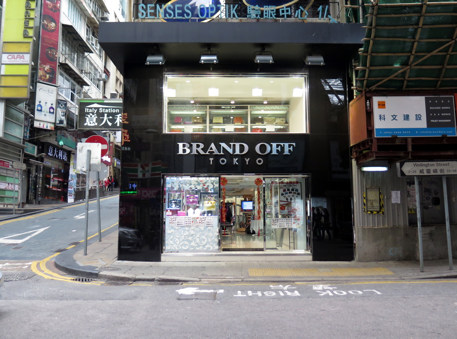 Brand Off store in Central